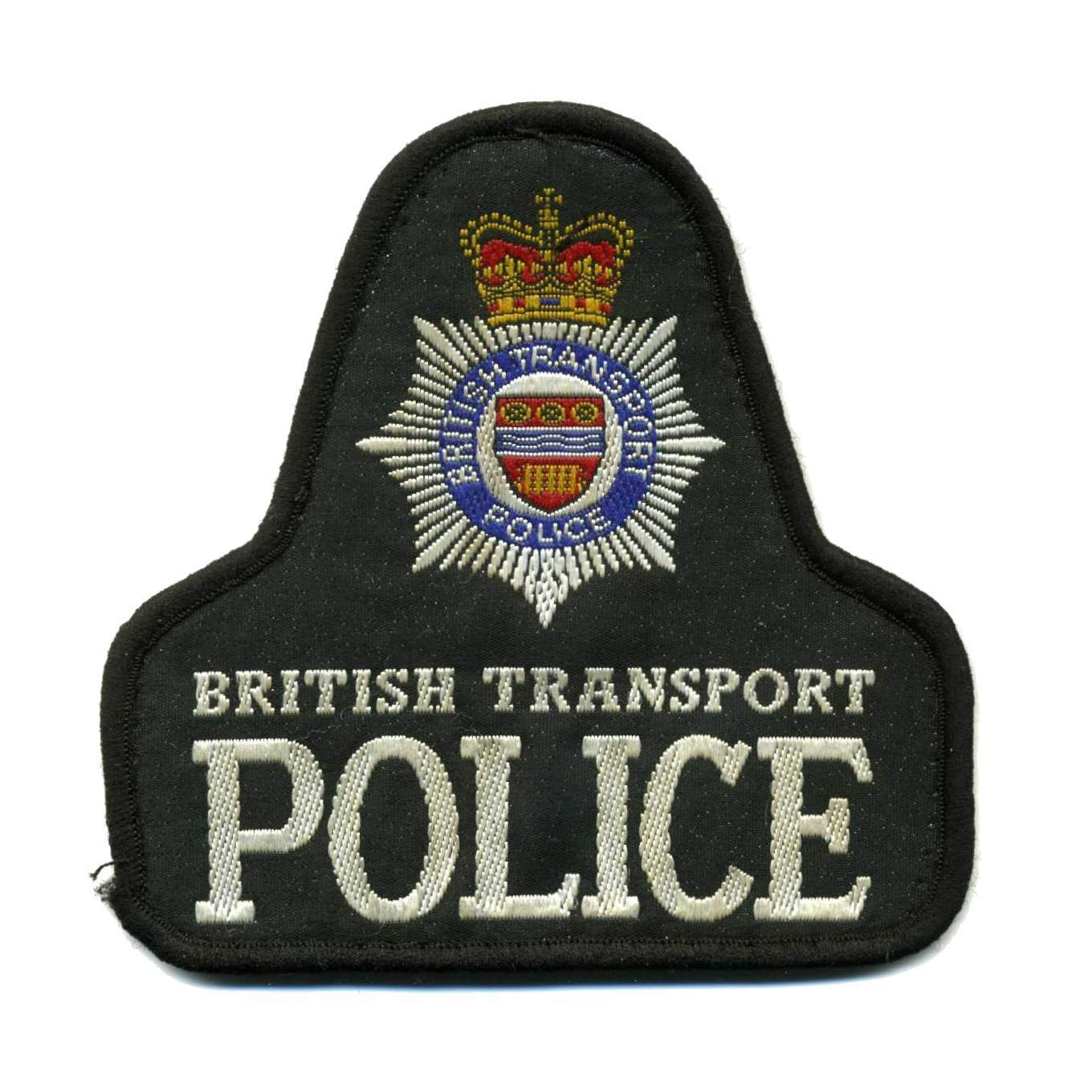 Part of my collection of SCOTTISH Police insignia BTP police the railway system throughout Scotland, England and Wales. BTP officers in Scotland are based at various main railway locations, including Inverness for the Highland area. BTP was created in 1962 from the former British Transport Commission (BTC) Police